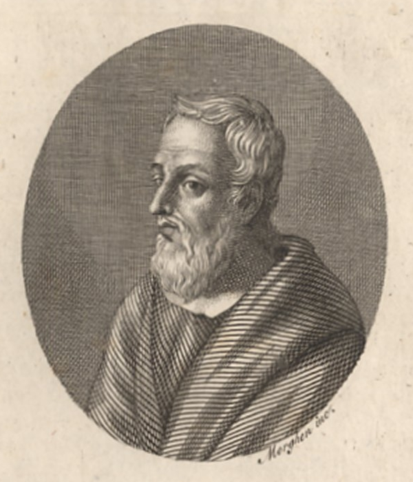 Hippasus of Metapontum, apparently from Biografia degli uomini illustri del regno di Napoli ..., Volume 4. 1817.